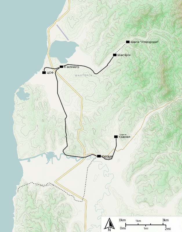 Narrow gauge railway in Shakhtersk